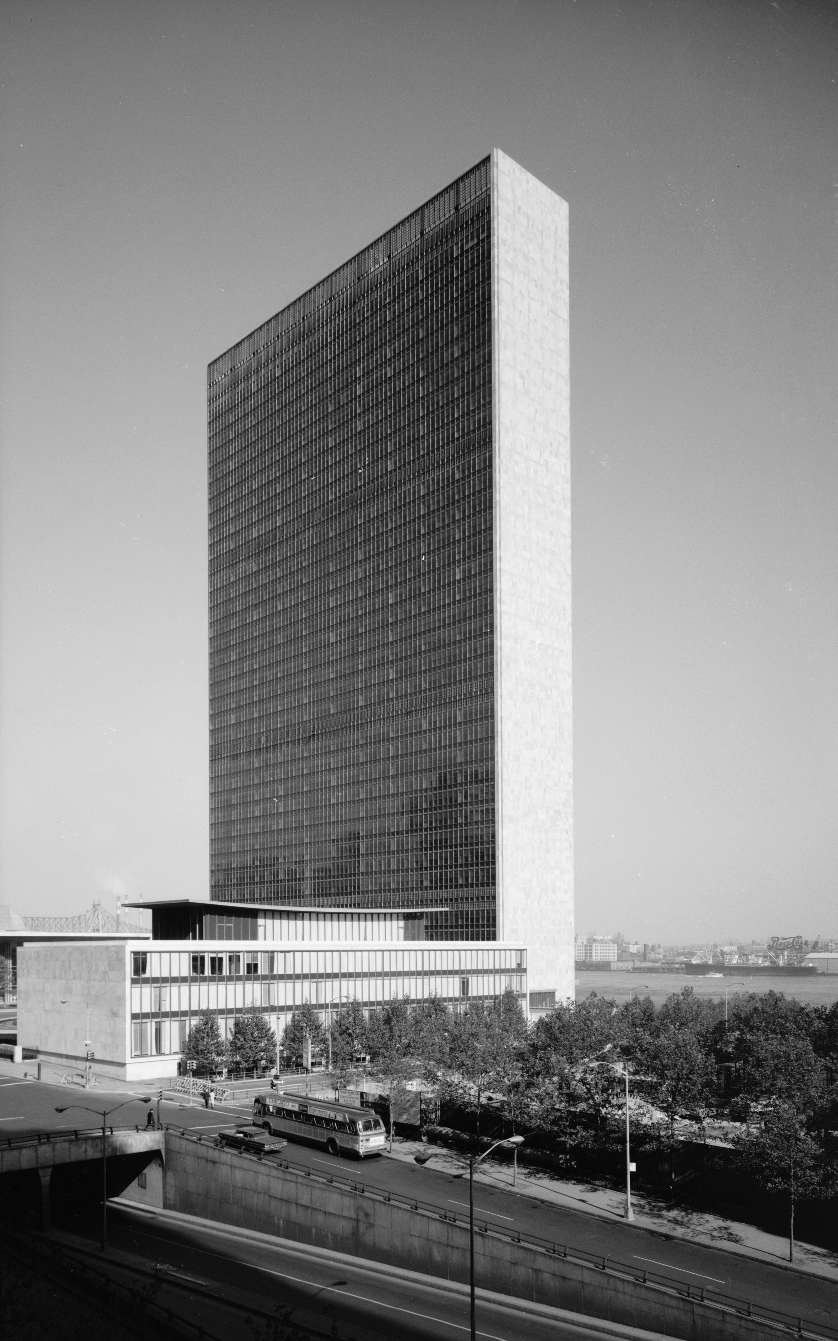 United Nations Headquarters. Photo from the Historic American Buildings Survey (HABS) and the Historic American Engineering Record (HAER) collections — U.S. National Park Service program.